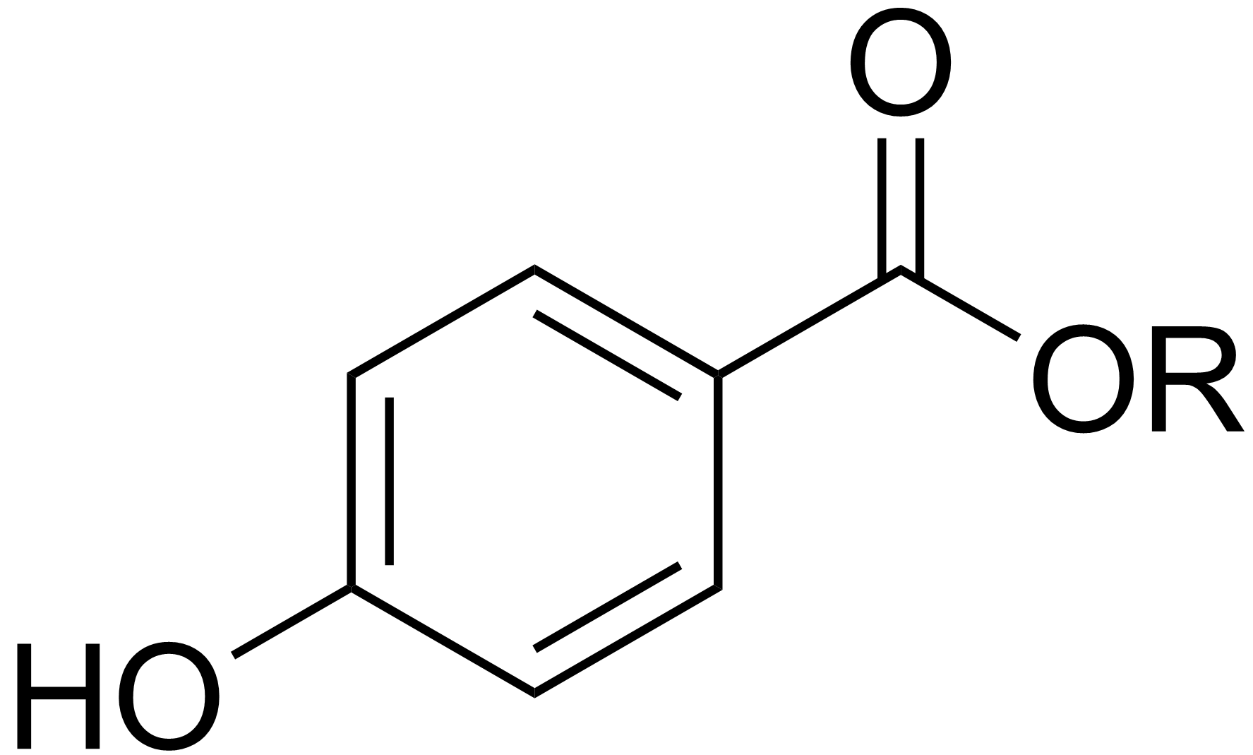 Generic chemical structure of parabens created with ChemDraw.